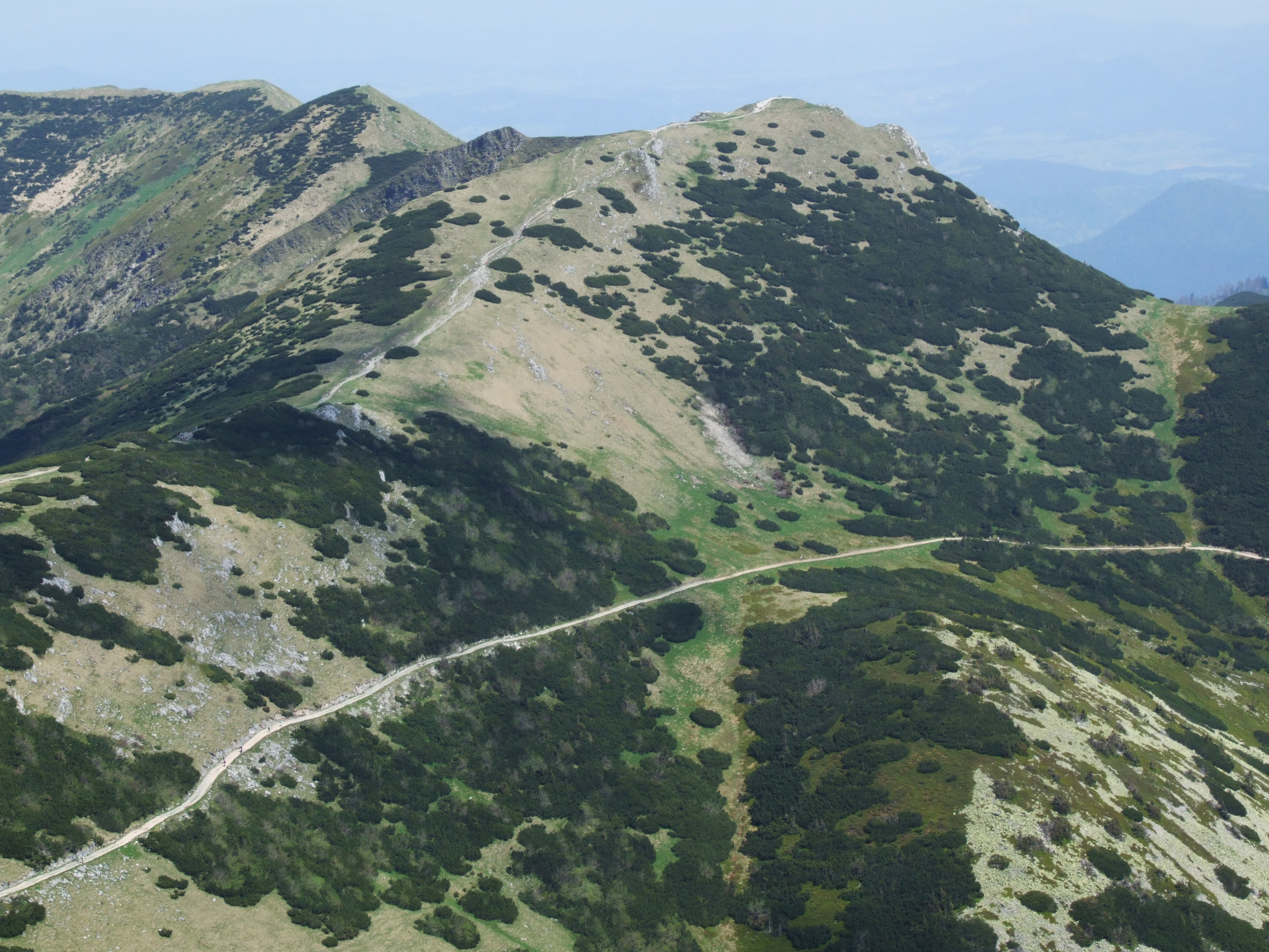 Malá Fatra - Chleb mount, view from Veľký Kriváň